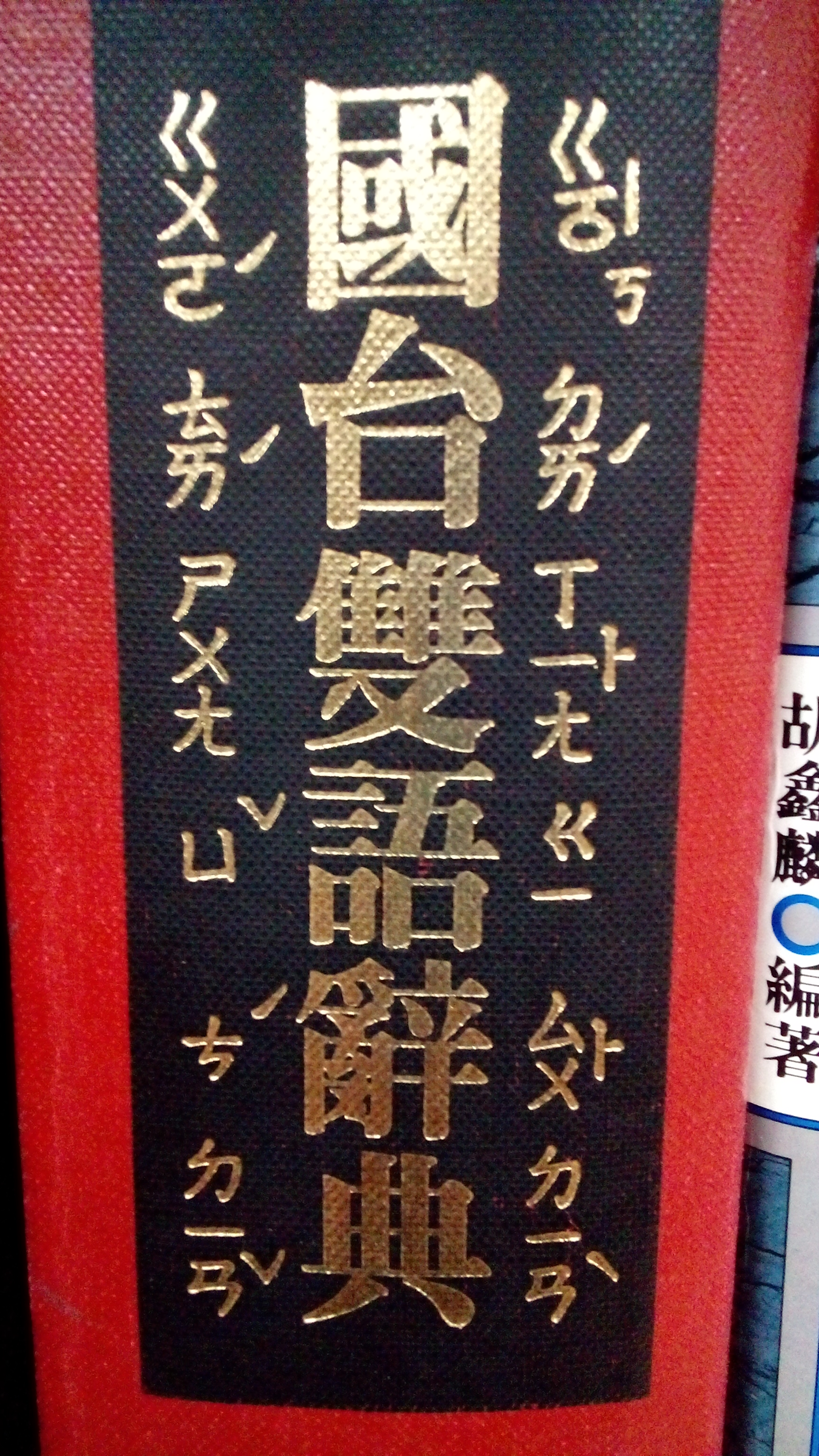 Mandarin-Taiwanese Dictionary